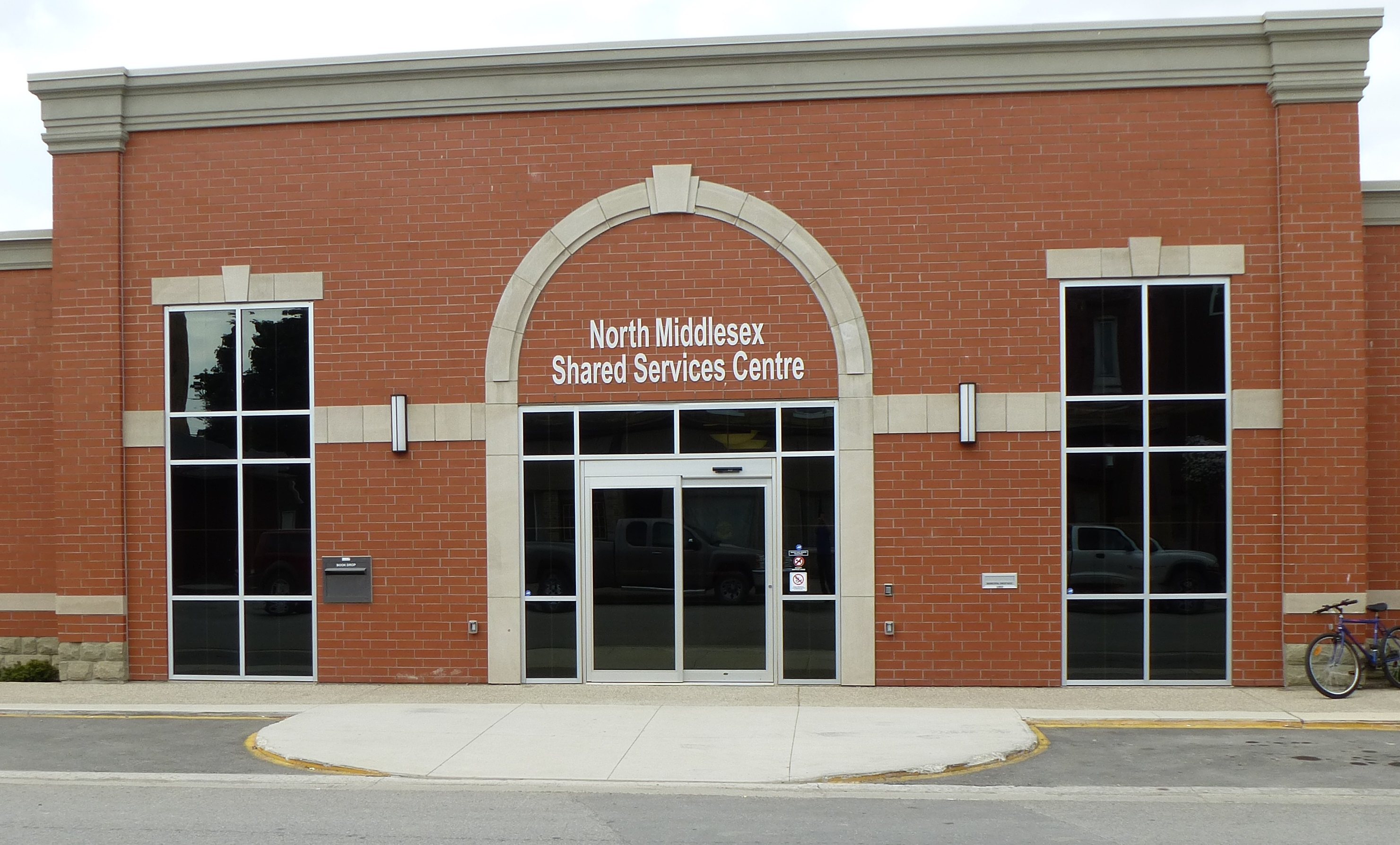 The front entrance to the North Middlesex Shared Services building, containing the municipal offices, public library and service ontario kiosk.